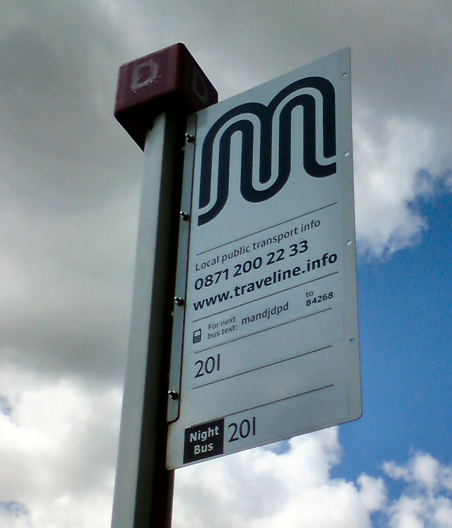 The stop for the #201 bus from Manchester Piccadilly to Hyde and Hattersley at Crown Point, Denton. The current design for "Transport for Greater Manchester" replaces the earlier design for "Greater Manchester Passenger Transport Executive" which so far as I know is just a change of name for the same body which oversees the transport network in the area.